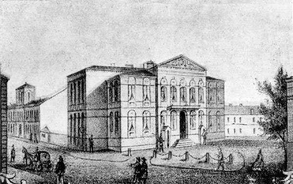 Image of the Romanian Royal Palace (now National Musueum of Art of Romania) approx. in the middle of the 19th century. Drawn 1866.